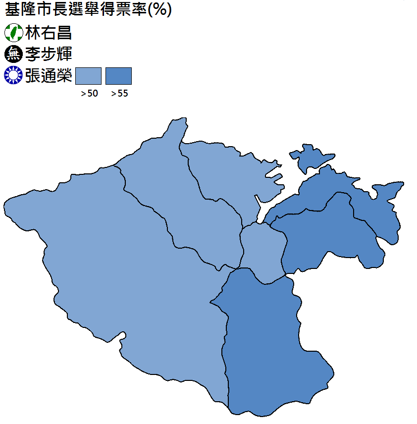 Keelung provincial cities mayoral election 2009